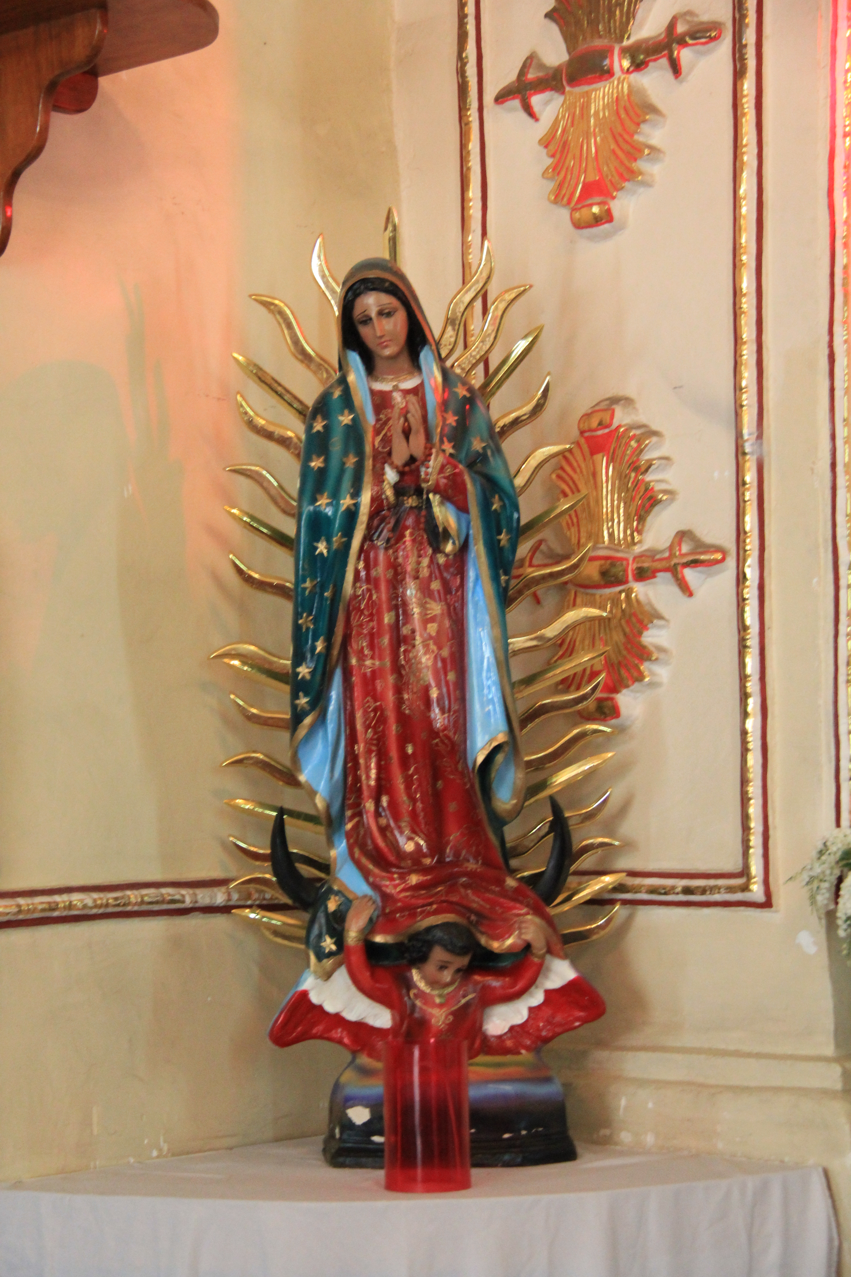 Saint Mary of Guadalupe in the church. San Lucas' Church, PARROQUIA DE SAN LUCAS XOCHIMANCA, Monte Carmelo, Mexico City, Federal District, Ciudad de Mexico